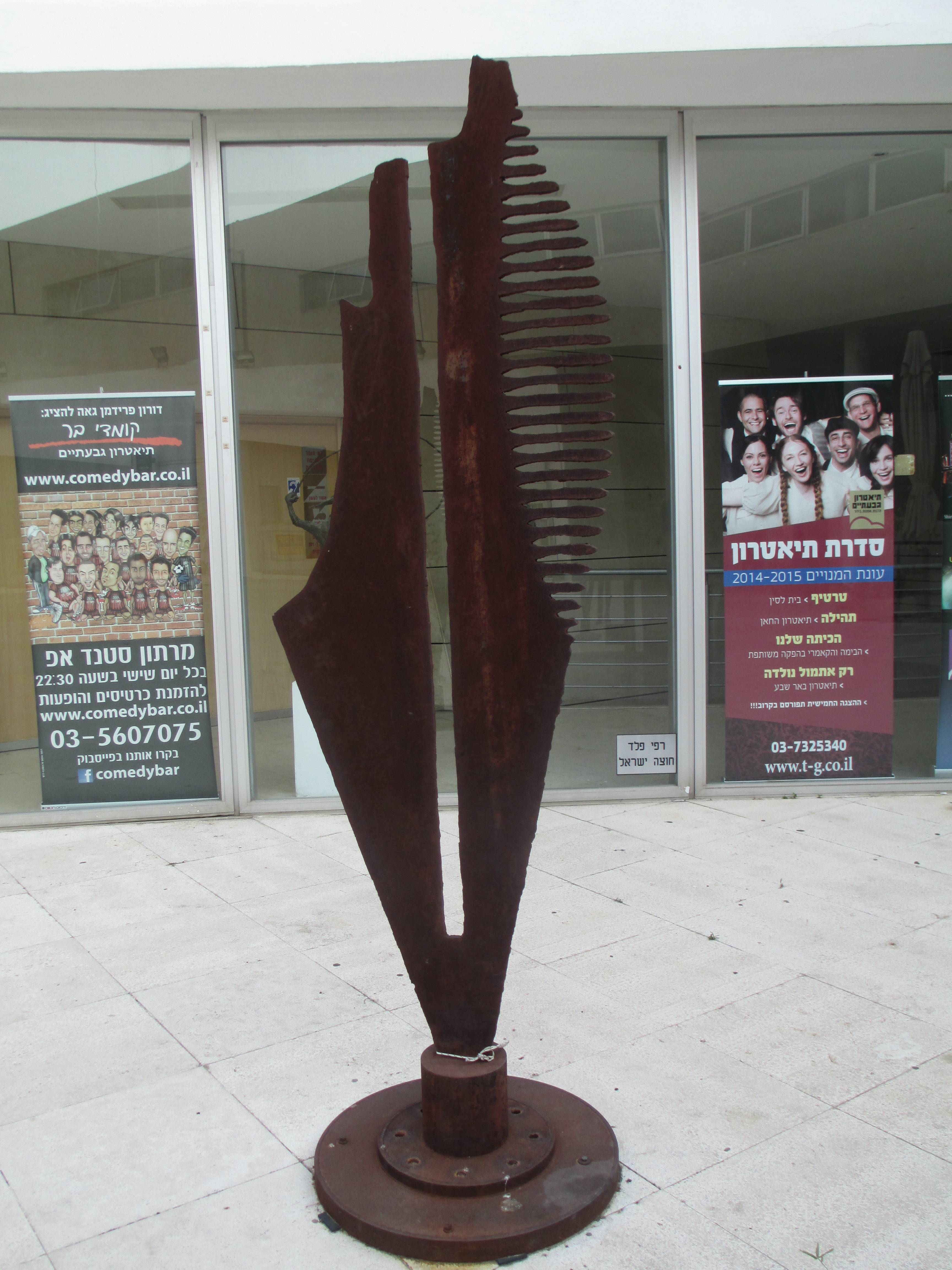 Trans-Israel by Rafi Peled in Giv'atayim